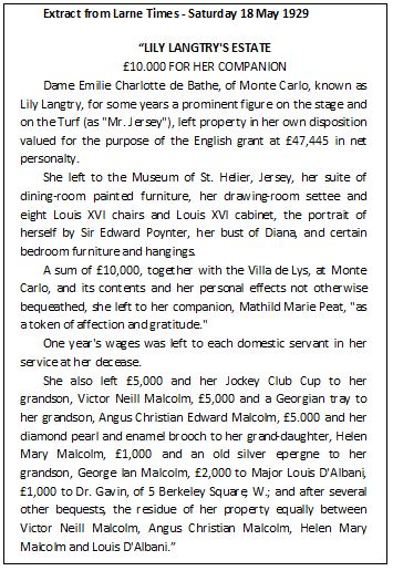 Extract transposed from 1929 newspaper